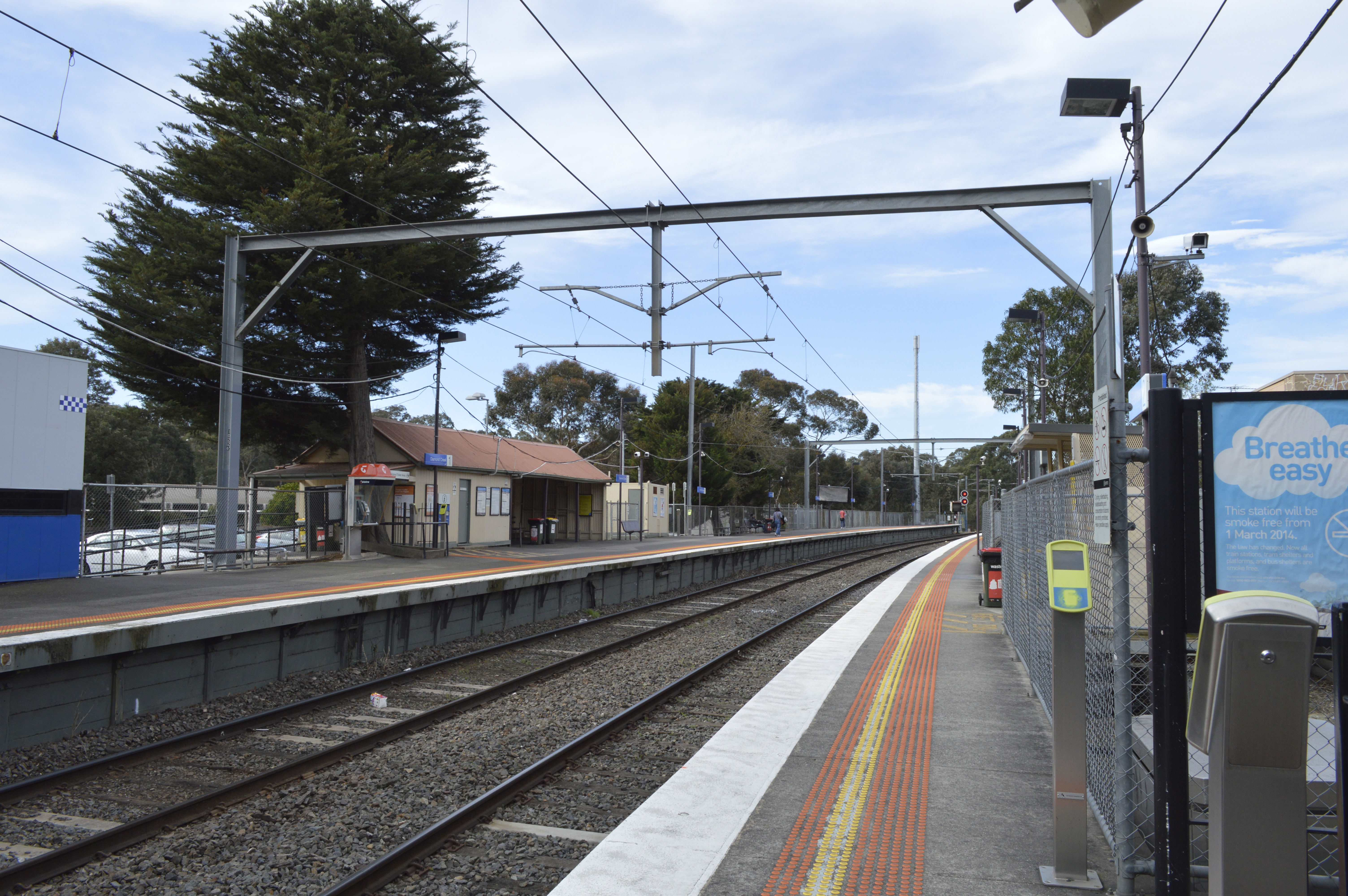 View from platform 2 looking down